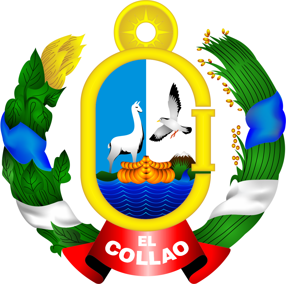 District wrench - Province of Collao - Puno Region